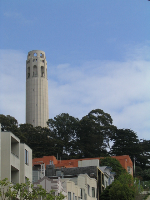 Coit tower in San Francisco, California